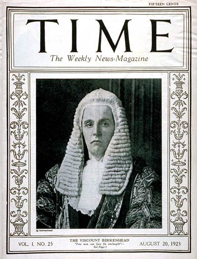 TIME Magazine Cover Featuring The Viscount Birkenhead (20 Aug 1923)